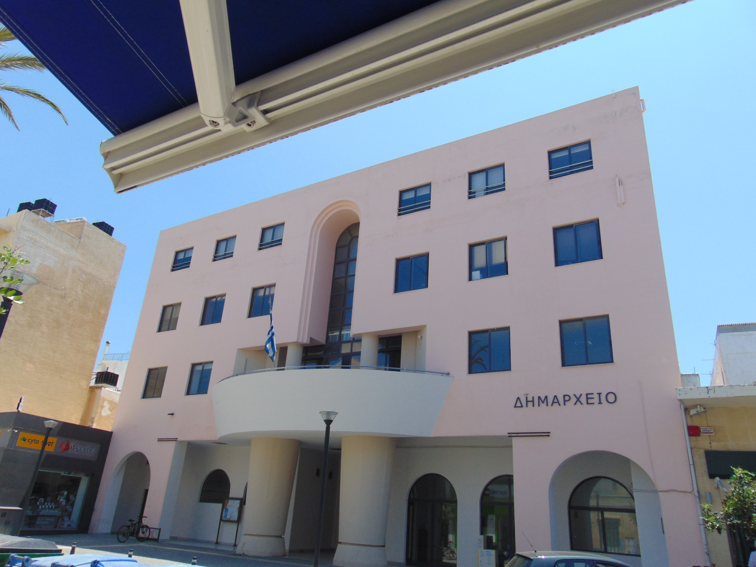 Ierapetra town hall.